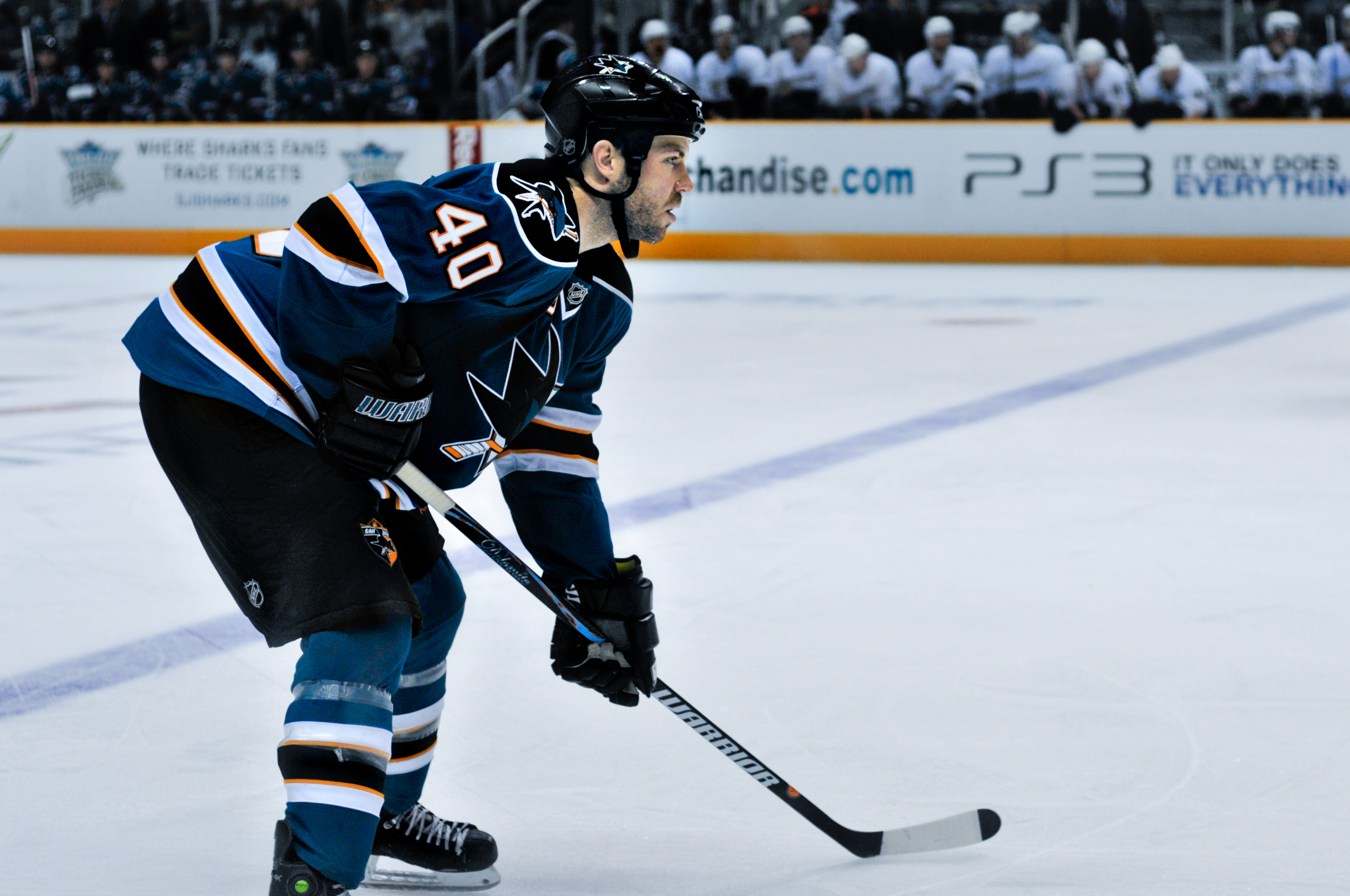 Kent Huskins of San Jose Sharks